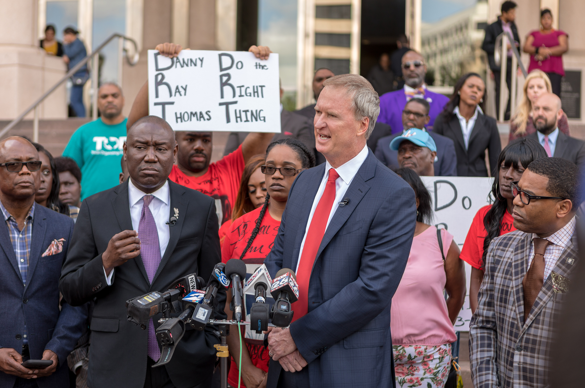 Attorneys Bob Hilliard and Ben Crump at the Danny Ray Thomas Press Conference in Houston, Texas on April 12th, 2018.